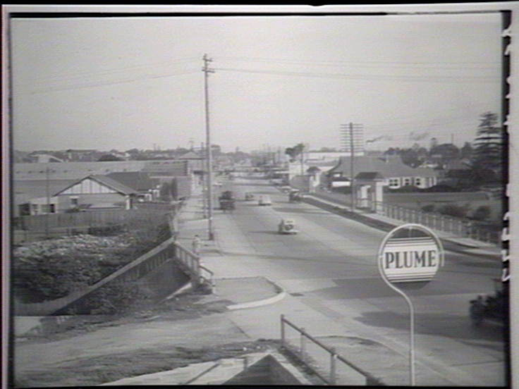 Parramatta Rd, NSW, 1938, looking east from Five Dock towards Ashfield. Under Australian law, all photographs taken in Australia before 1955 are in the public domain. This image is in the public domain under both Australian copyright law and US copyright law.